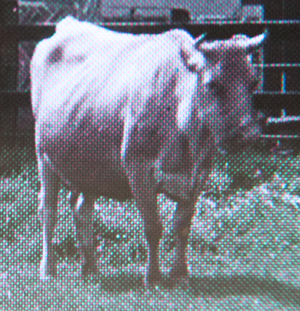 The reproduction of the technical detail isn't great here - under a lens each colour 'dot' is actually a very sharp-edge diamond shape (or rather a square rotated 45-degrees). There are c. 3 dots per millimetre. It is a sandwich of two thin glass plates, measuring c. 4x3". It has a very distinctive colour 'grid' (see the detailed view). It is certainly not an Autochrome, doesn't appear to be a Dufaycolor or Finlay Colour ("Thames Colour Screen") which were two early thoughts, but actually appears to be a Paget Colour plate, made famous by Frank Hurley on his Antarctic expeditions. See adjacent images for full image and crop. All information and comments would be greatly appreciated. Discovered in a box of glass negatives, this I believe dates from the very early part of the 20th Century, probably no later than around 1920.